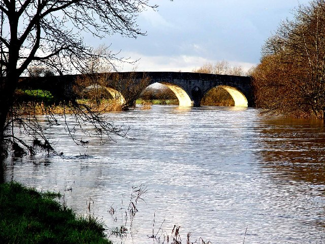 B3073 Bridge over Stour at Wimborne.